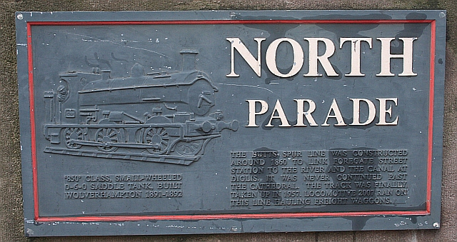 Plaque desctibing the riverside railway, Worcester "The Butts SpurLine was constructed around 1860 to link Foregate Street Station to the river and the canal at Diglis. It was never continued past the cathedral. The track was finally taken up in 1957. Locomotive 2007 ran on this line hauling freight wagons." Beneath the locomotive is the description:" '850' Class, small-wheeled 0-6-0 saddle tank, built (in) Wolverhampton 1891-1892"